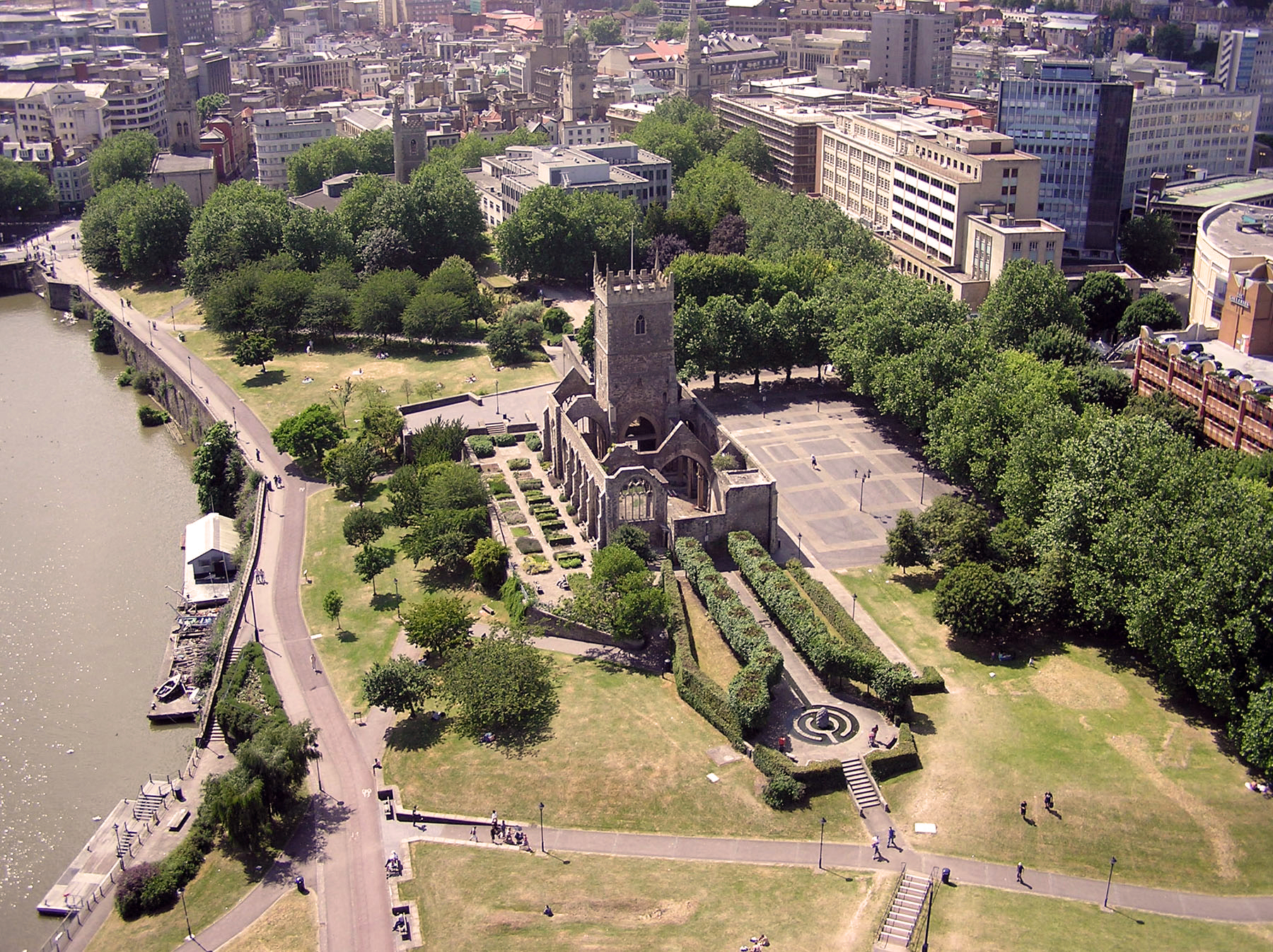 Looking across Castle Park in central Bristol, England, from a tethered passenger balloon at 500 feet. The ruined church, St. Peter’s, was gutted by enemy action in 1940. The channeled River Avon (called the Floating Harbour) is on the left.